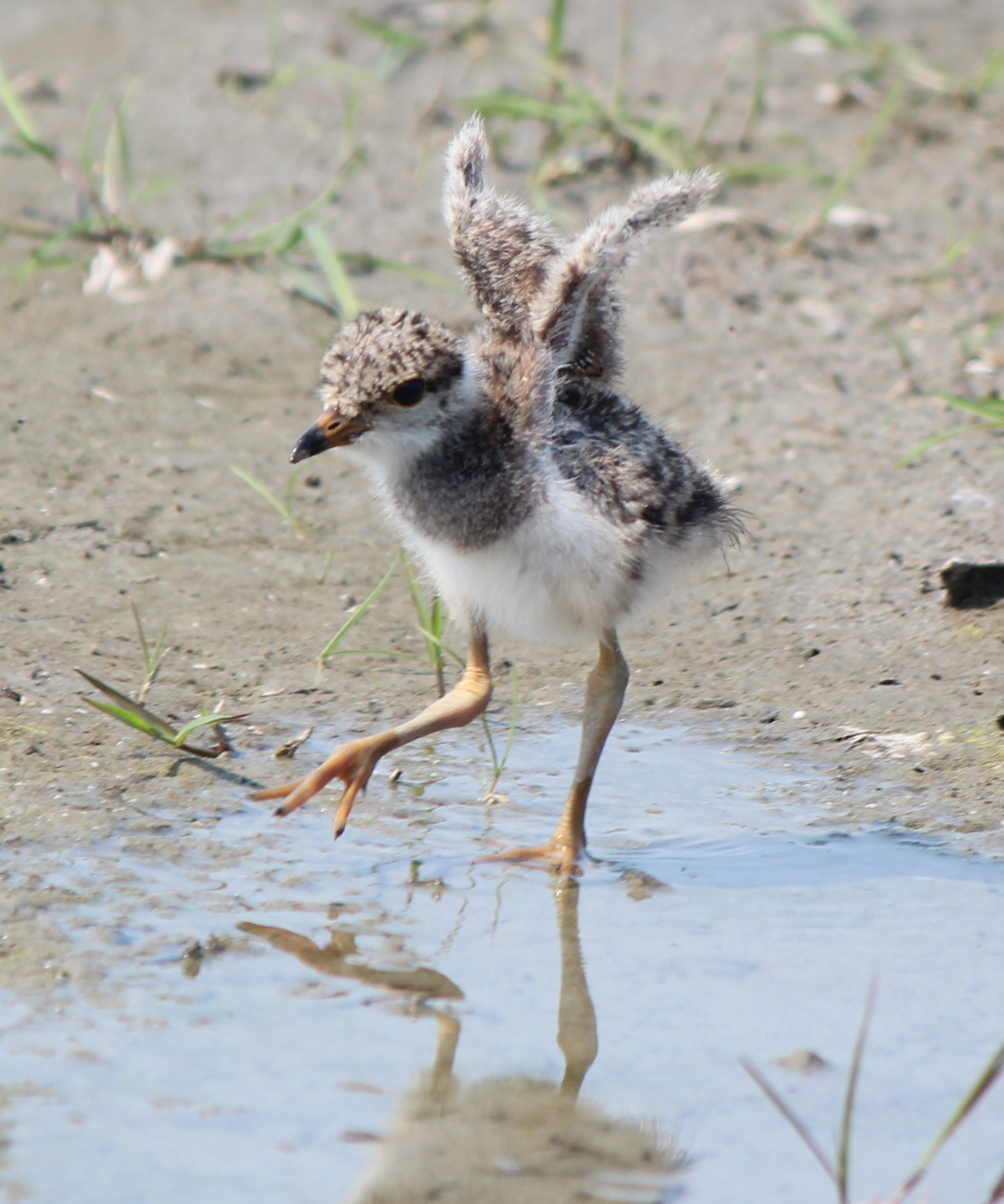 Juvenile of Grey-headed Lapwing (Vanellus cinereus) , in Japan.